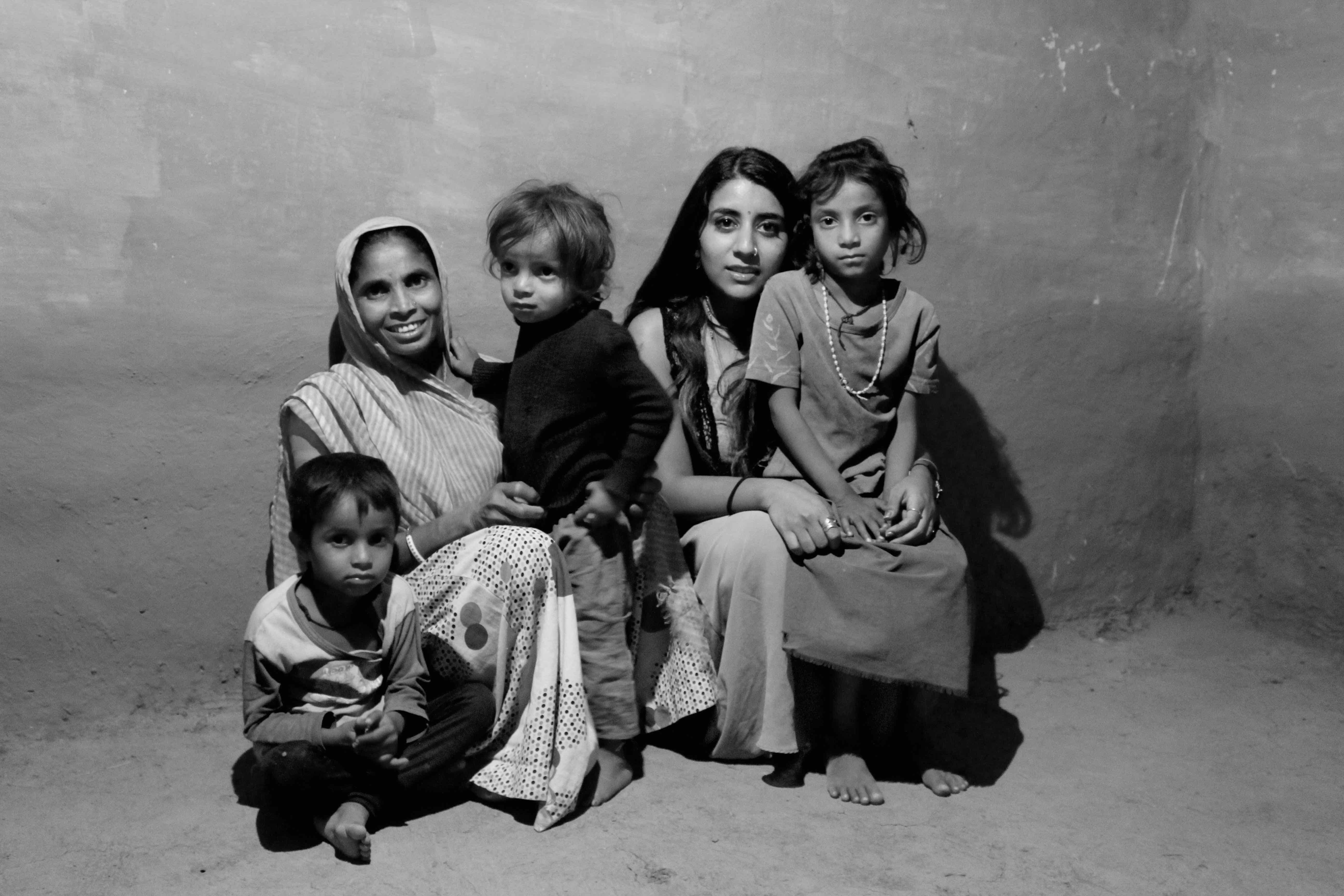 Zoya visiting with family from Miatrimanthann NGO Toy Library for children and women